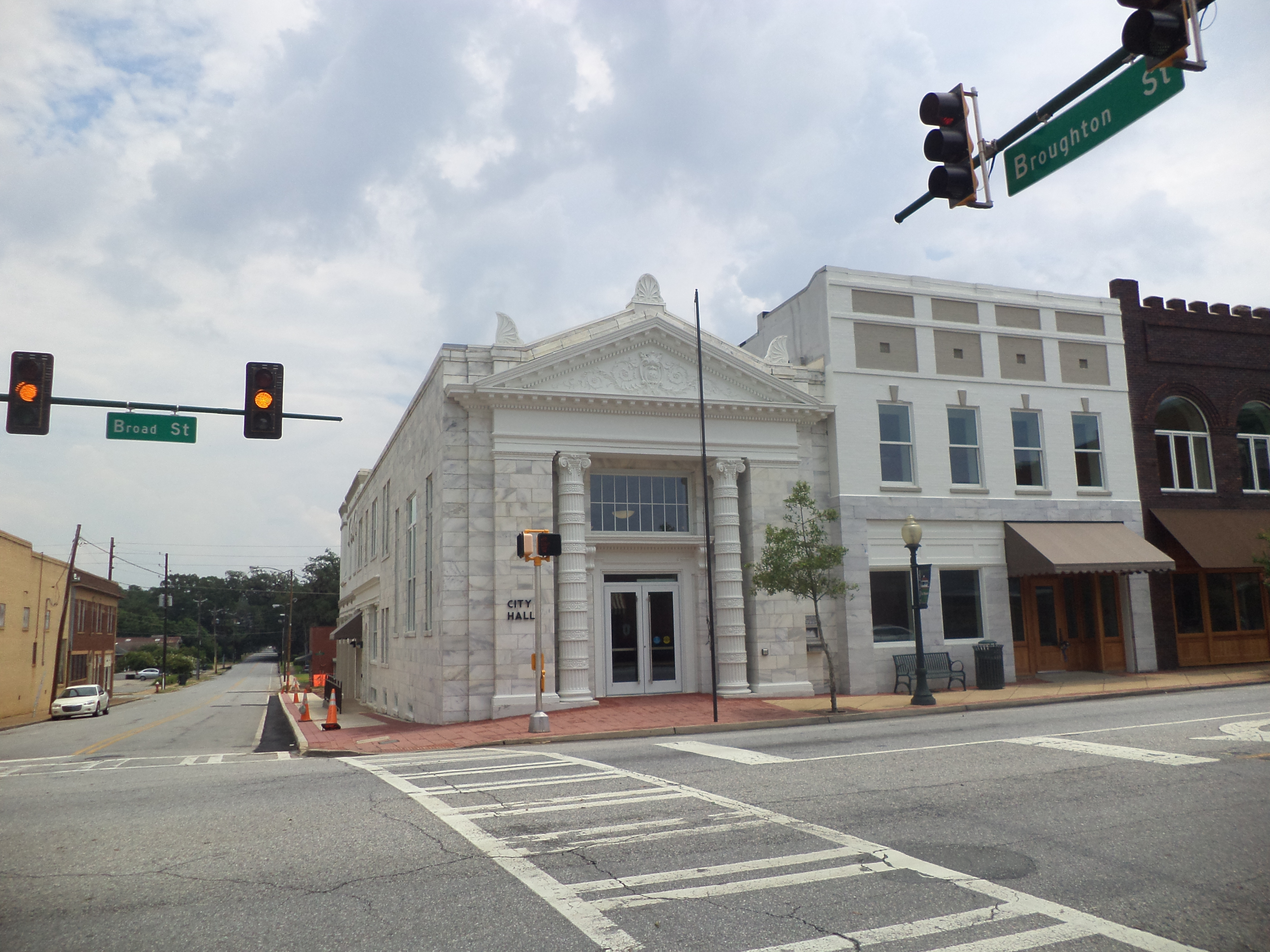 Bainbridge City Hall, Bainbridge, Decatur County, Georgia. The building that houses City Hall is a historic district contributing property of the Bainbridge Commercial Historic District.